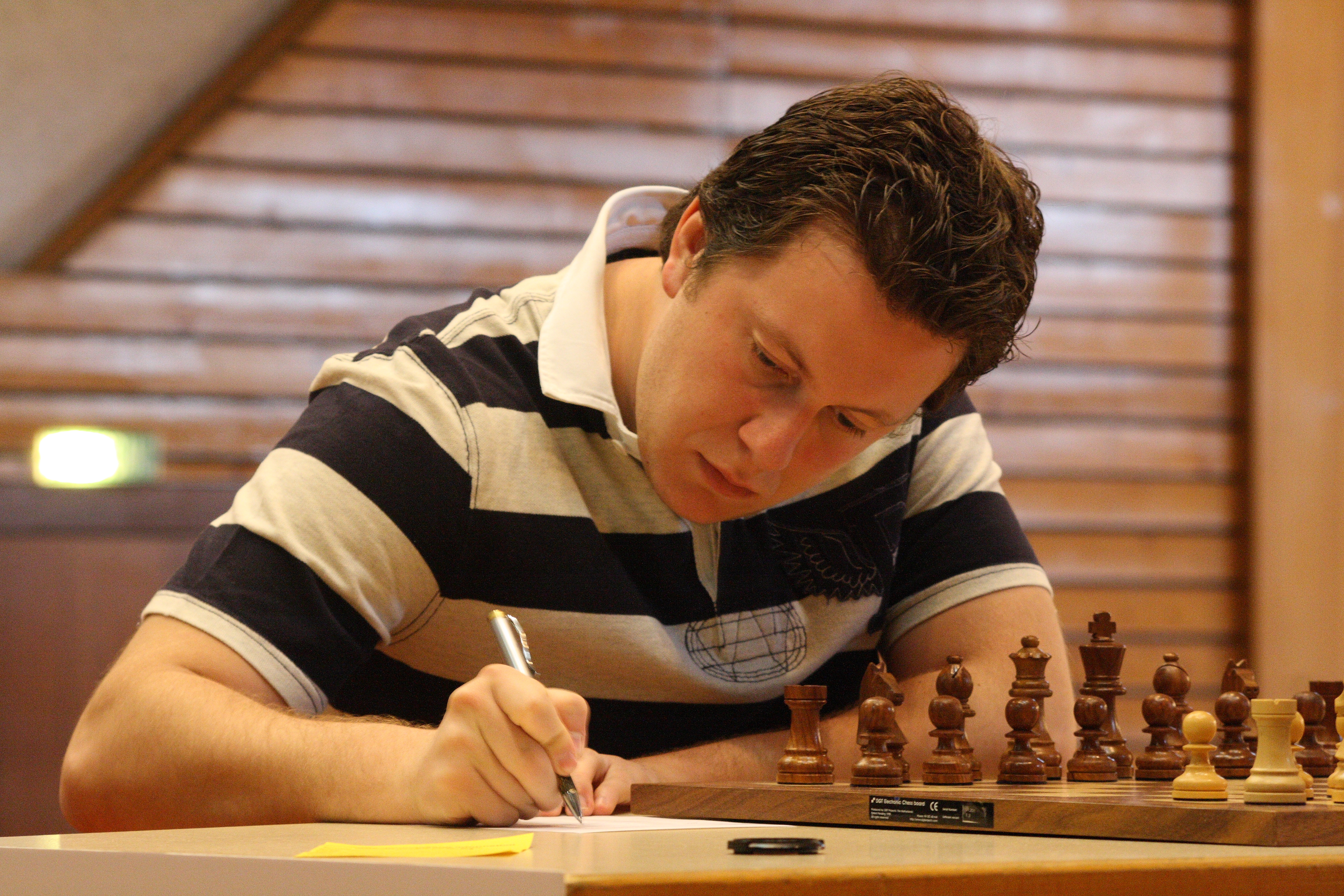 GM Arkadij Naiditsch Germany, 13. Int. Neckar-Open 2009